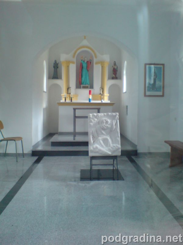 St. Elijah church, Rešetarica